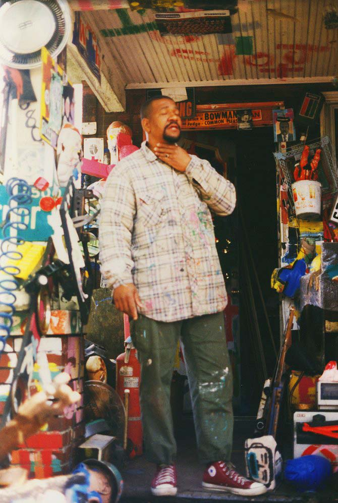 photo of Detroit artist Tyree Guyton from the mid 1990s